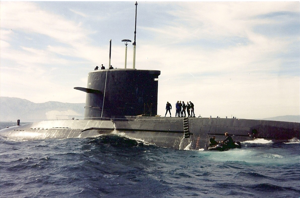 Zwaardvis class submarine deployment exercise